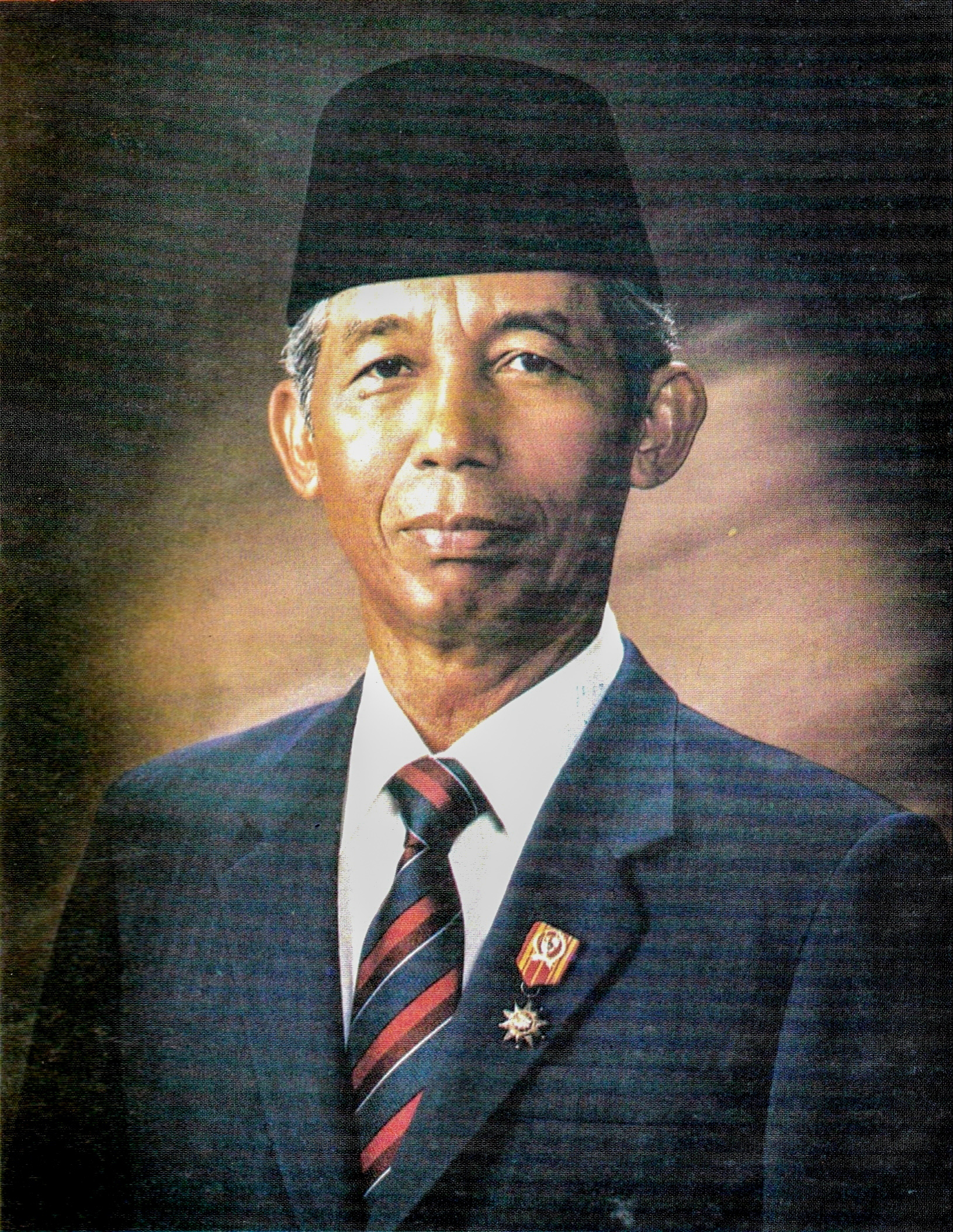 Sudharmono, the 5th vice president of Indonesia.